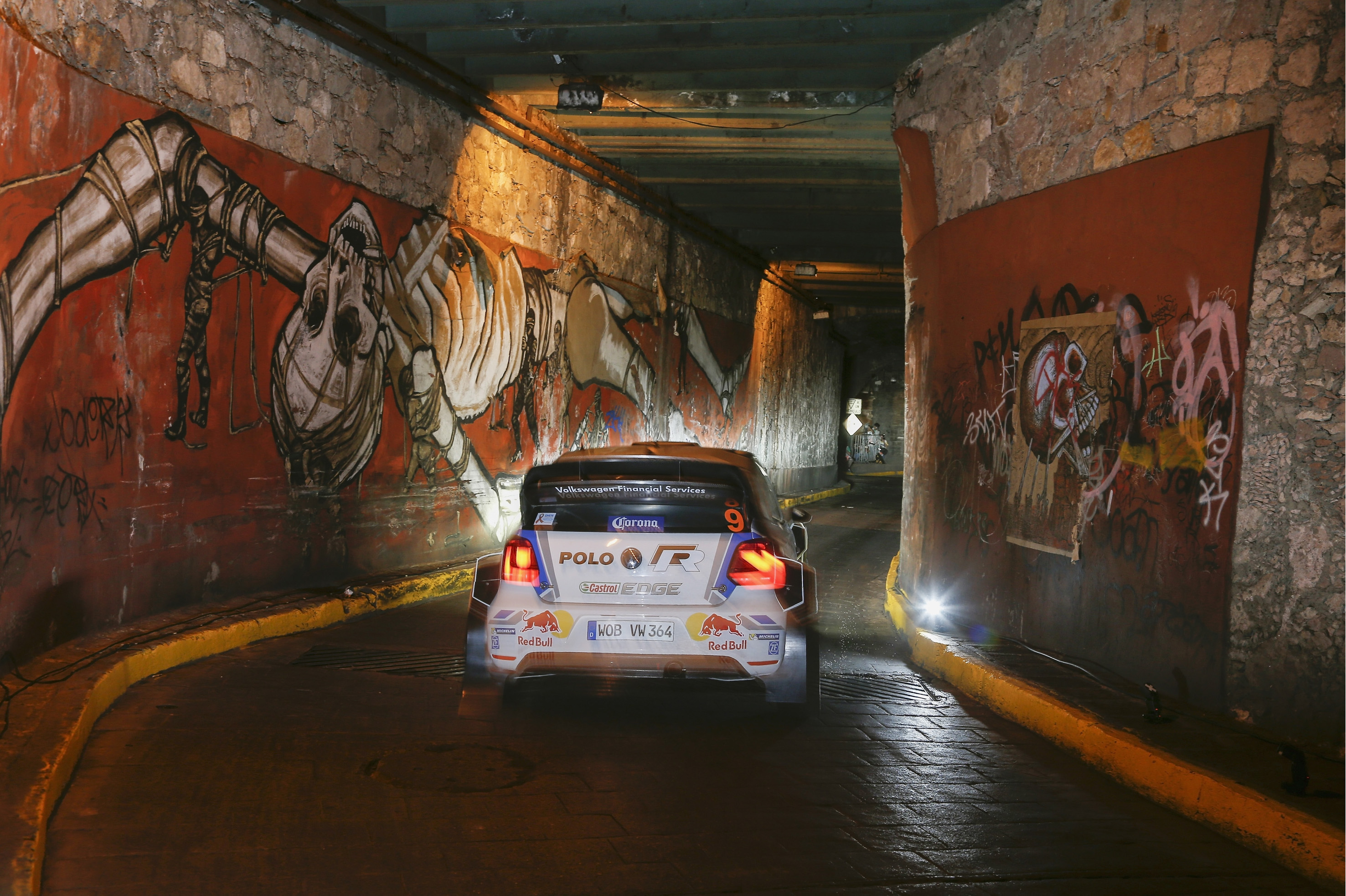 Andreas Mikkelsen and co-driver Mikko Markkula in their VW Polo R WRC in the tunnels under Guanajuato City, Rally Mexico 2014.